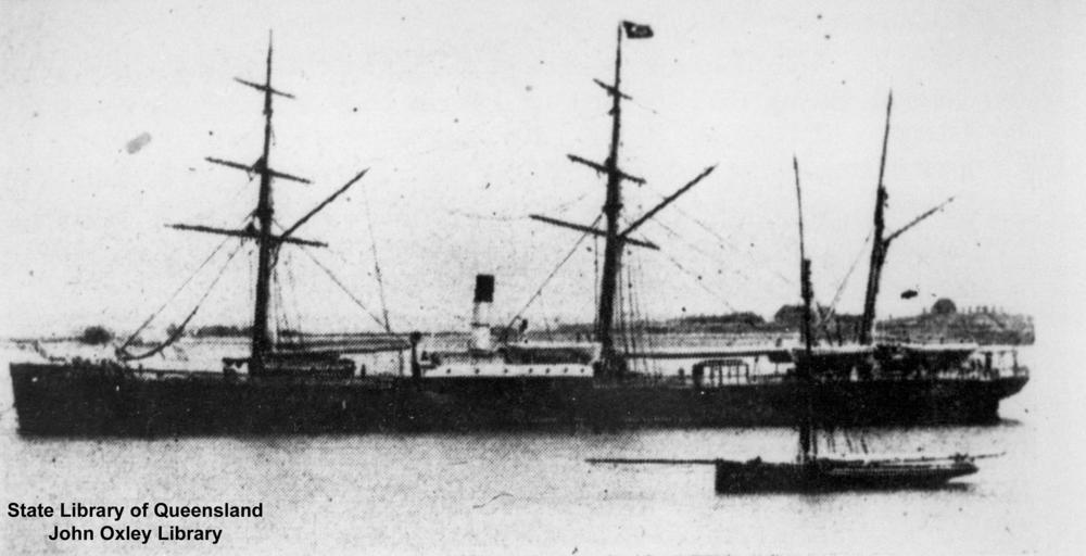 2,280 GRT passenger and cargo steamship Agamemnon, built in 1865 by Scotts of Greenock for Alfred Holt's Ocean Steam Ship Co, later known as the Blue Funnel Line. She was one of the Ocean Steam Ship Co's first ships, and a sister ship to the company's Ajax and Achilles. She was powered by tandem compound engines. Her bunkers could carry enough coal for the round trip between England and China, with enough space for a profitable amount of cargo. (Description supplied with photograph). Other sources explain that Agamemnon combined a high pressure boiler with an easily driven hull shape and a compound engine to give a fuel consumption of only 20 tons per day - substantially less than contemporary steamships. When steaming to China, she made one coaling stop at Mauritius on both the outward and return trip.